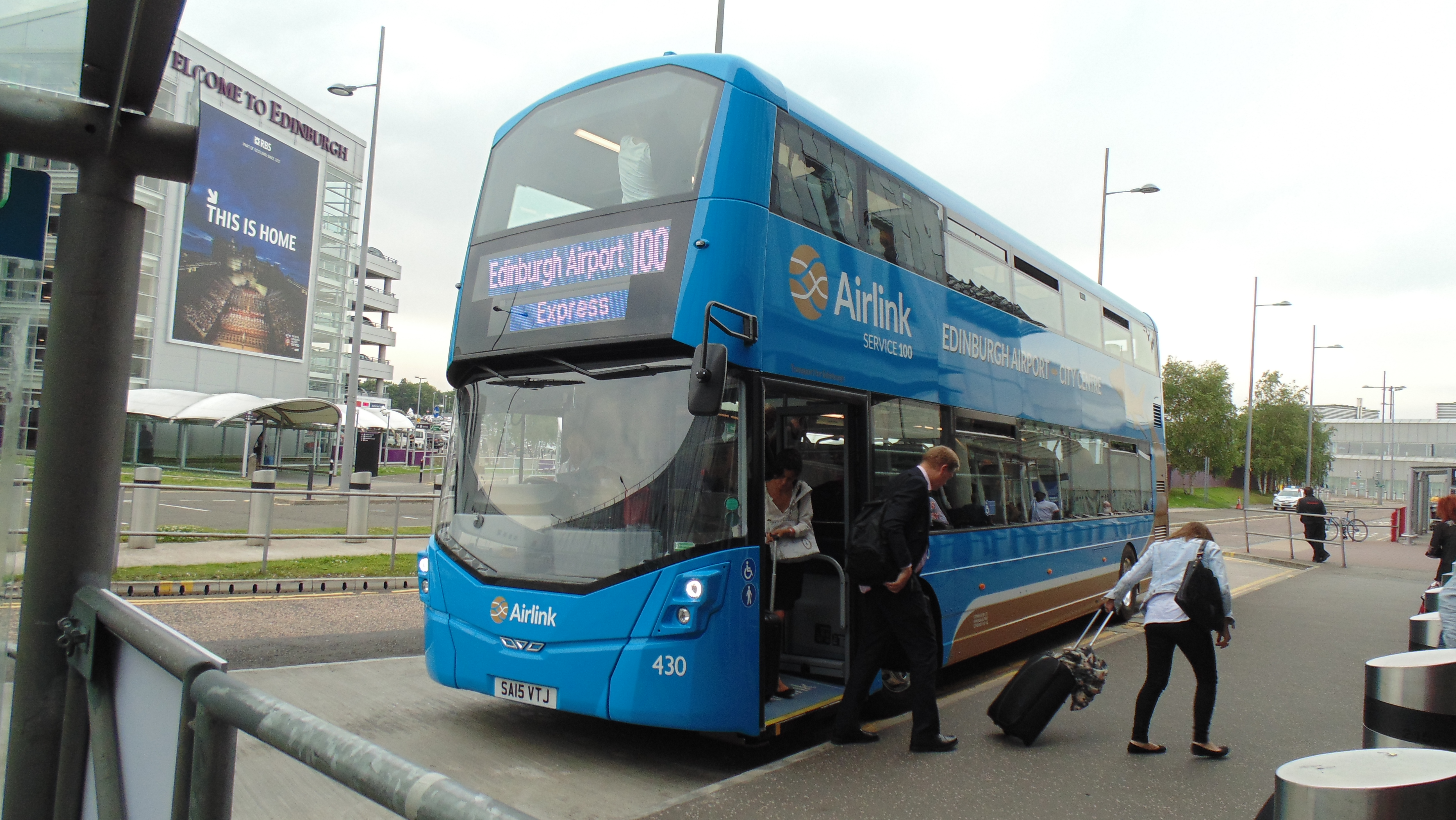 Lothian Buses bus No. 430 (reg. SA15 VTJ), seen at Edinburgh Airport working the Airlink branded route 100 on its first day of service. Their introduction displaced five year old vehicles and refreshed the livery - see Lothian Buses: airport fleet.